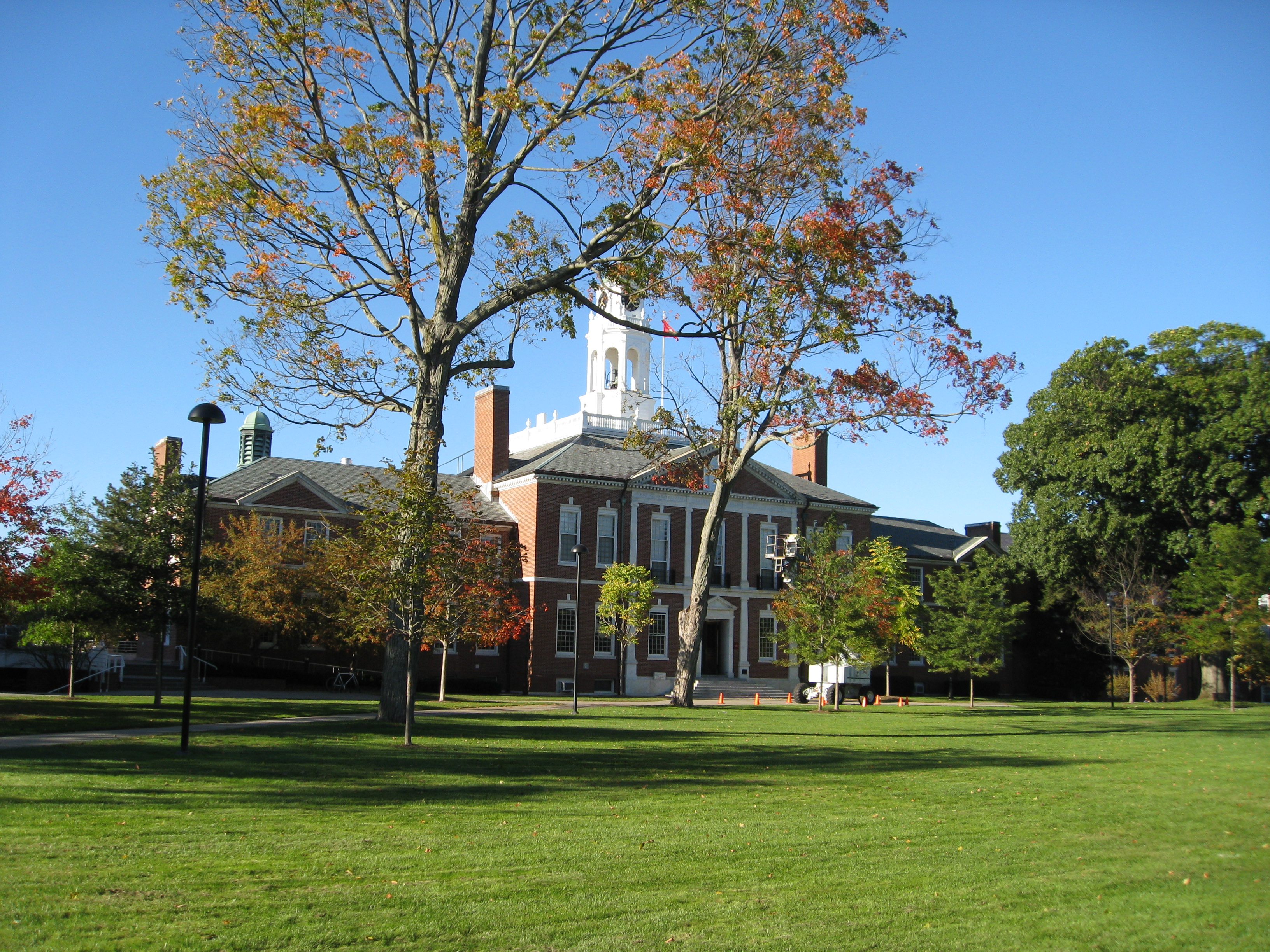 The Academy Building in the fall.